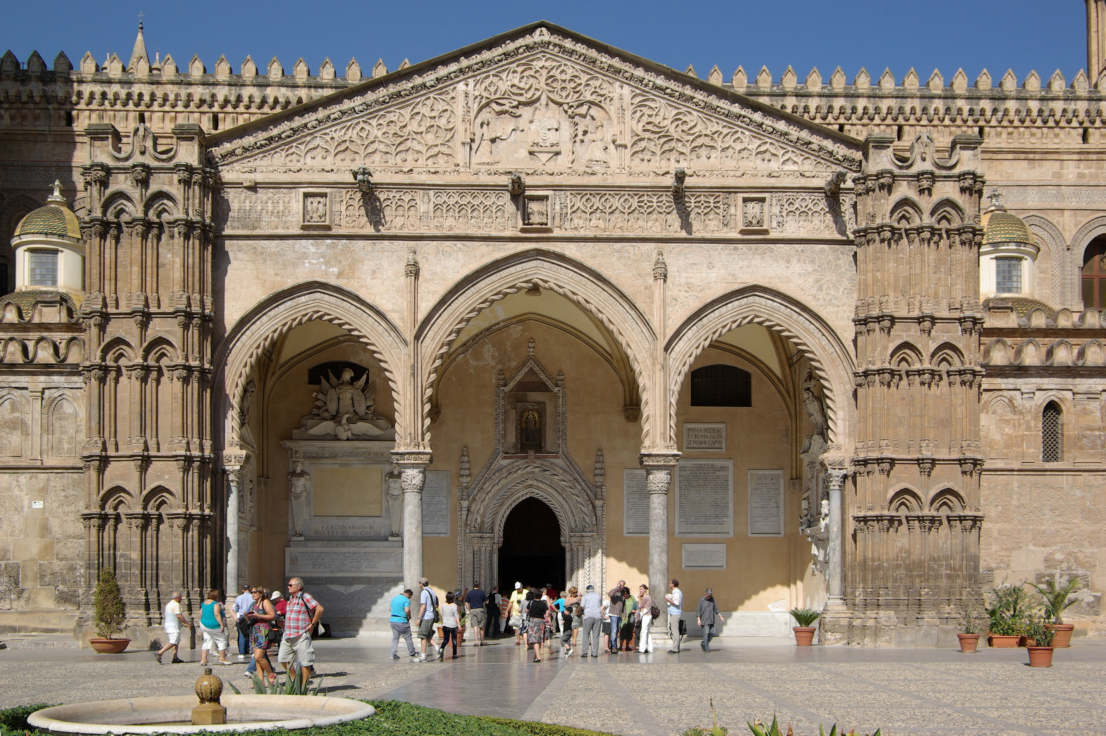 Italy, Sicily, Palermo, cathedral